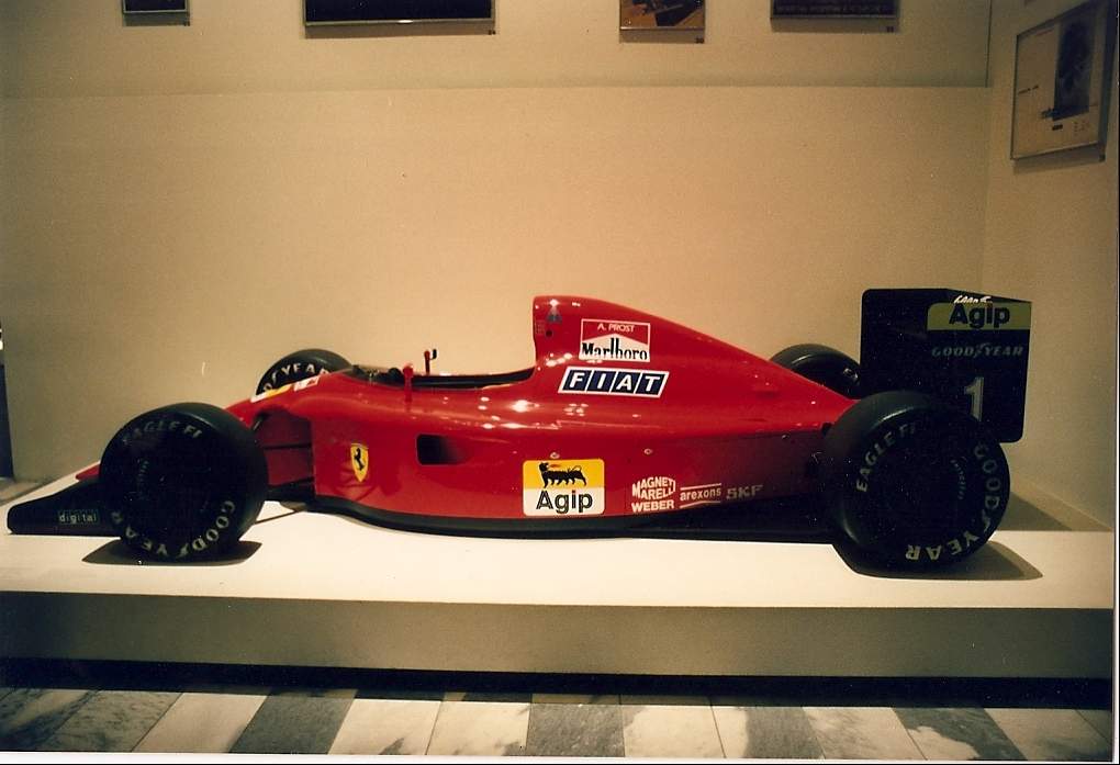 Alain Prost's Ferrari 641 on display at the New York Museum of Modern Art.